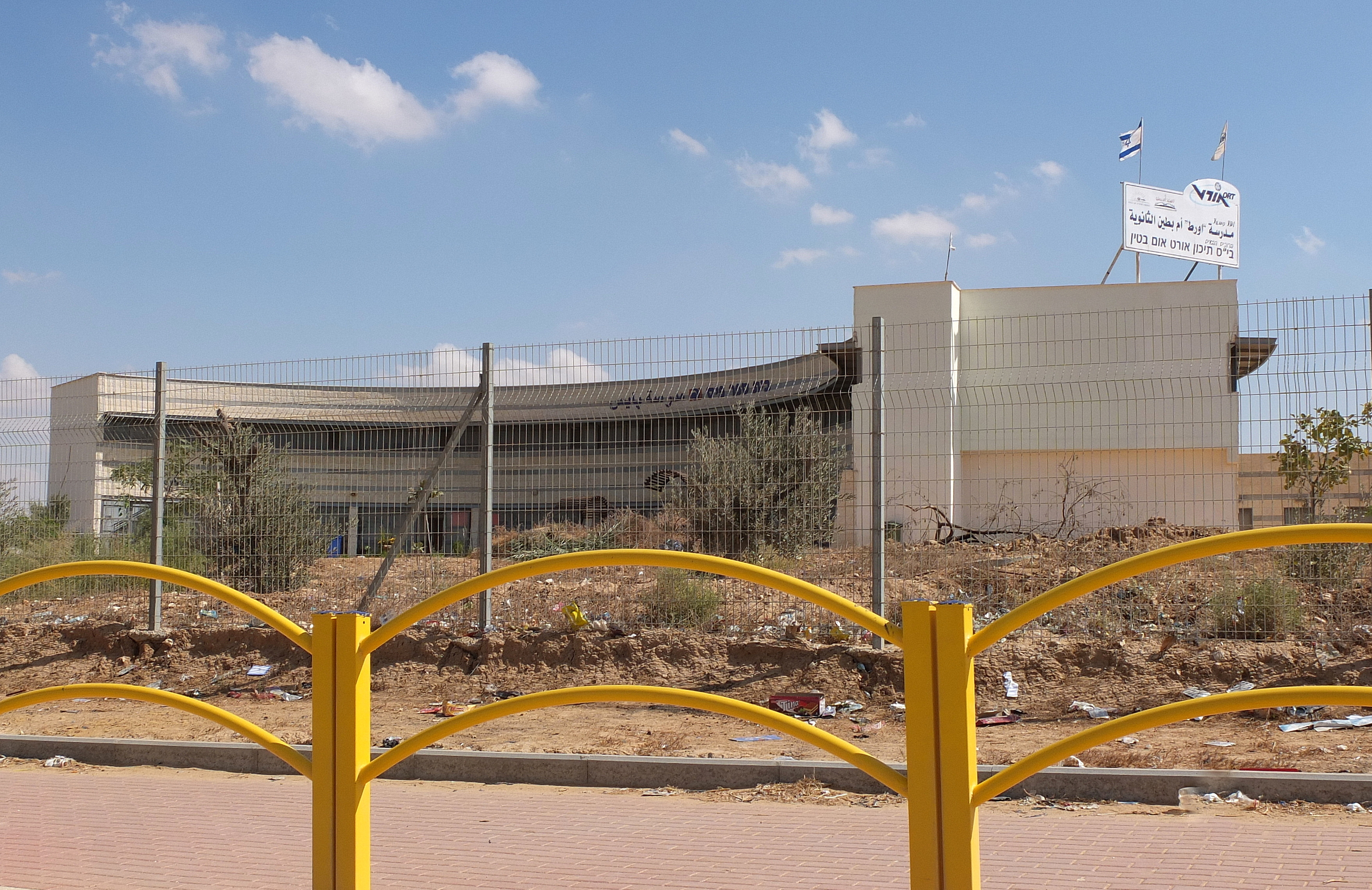 ORT High School in Umm Batin, a Negev Bedouin village near Beersheva, Israel